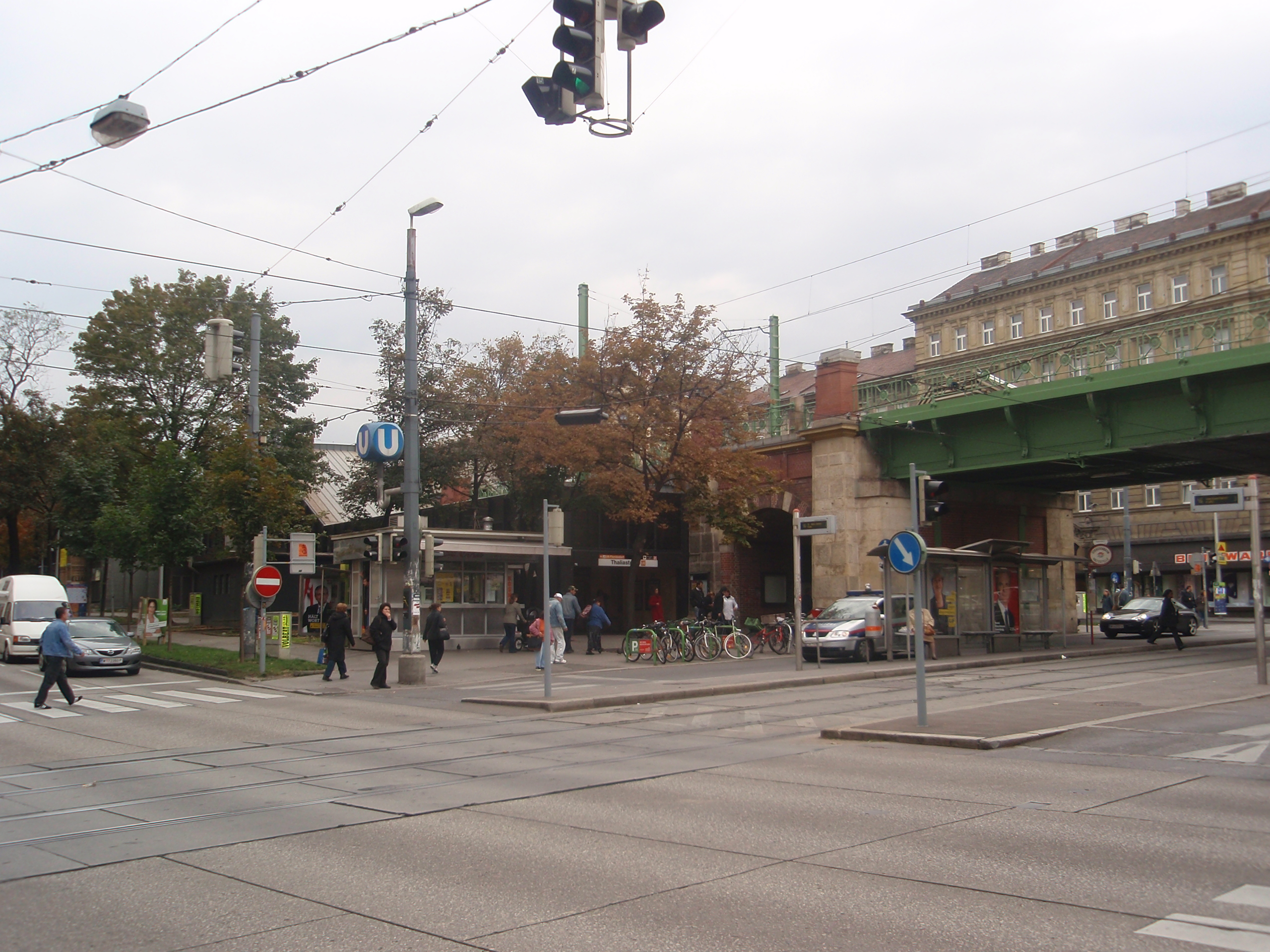 U6-Station Thaliastraße